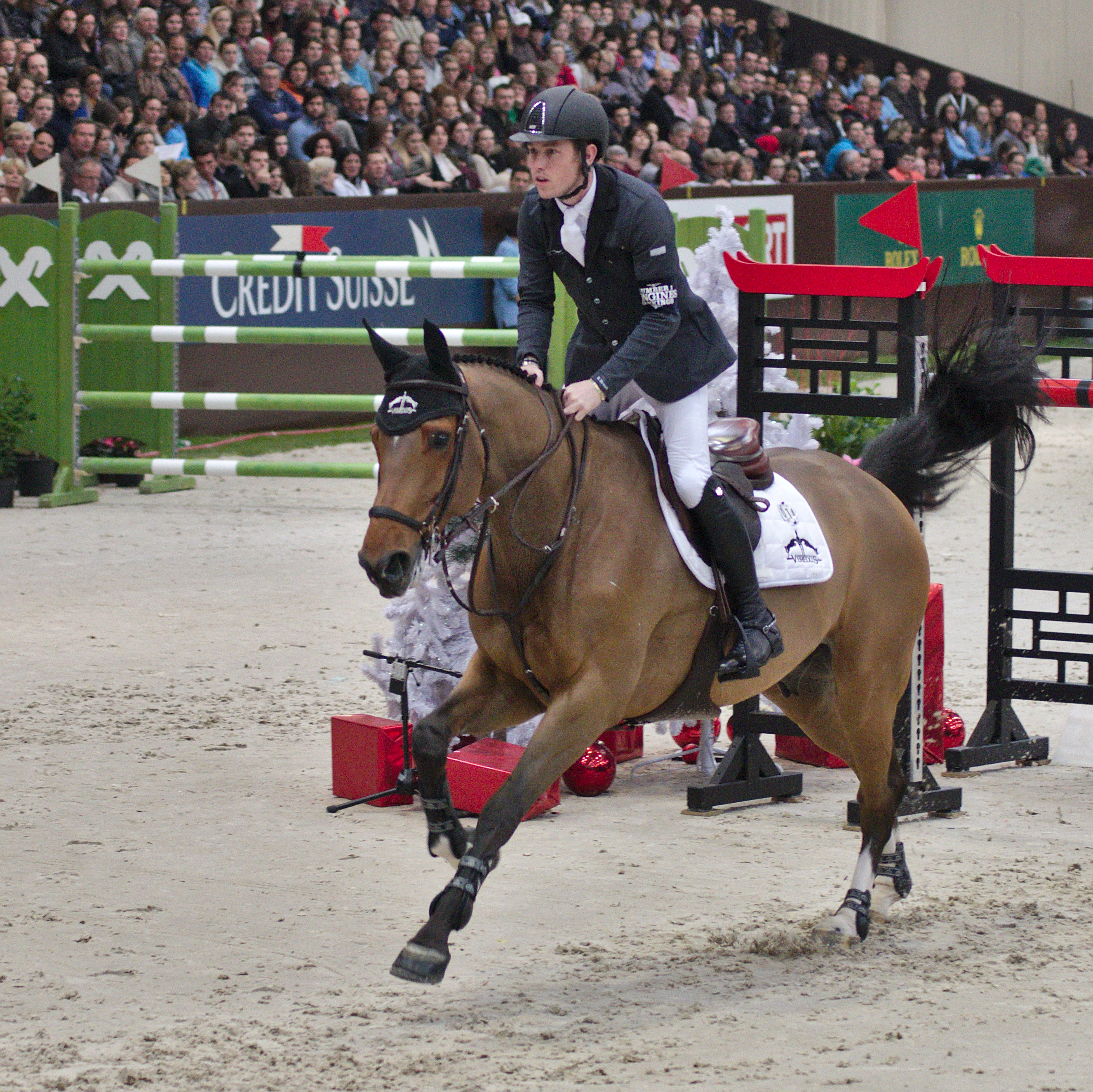 CHI Genève 2013 - 20131215 - Scott Brash et Hello Sanctos